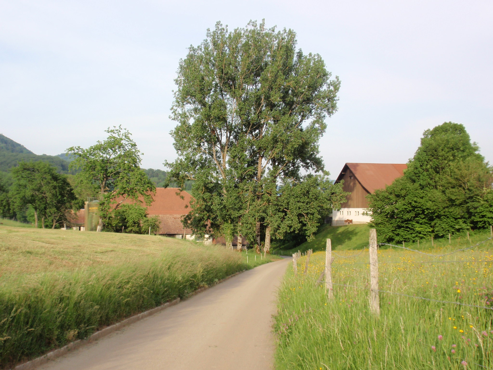 Seleute. A Swiss village in the Canton of Jura